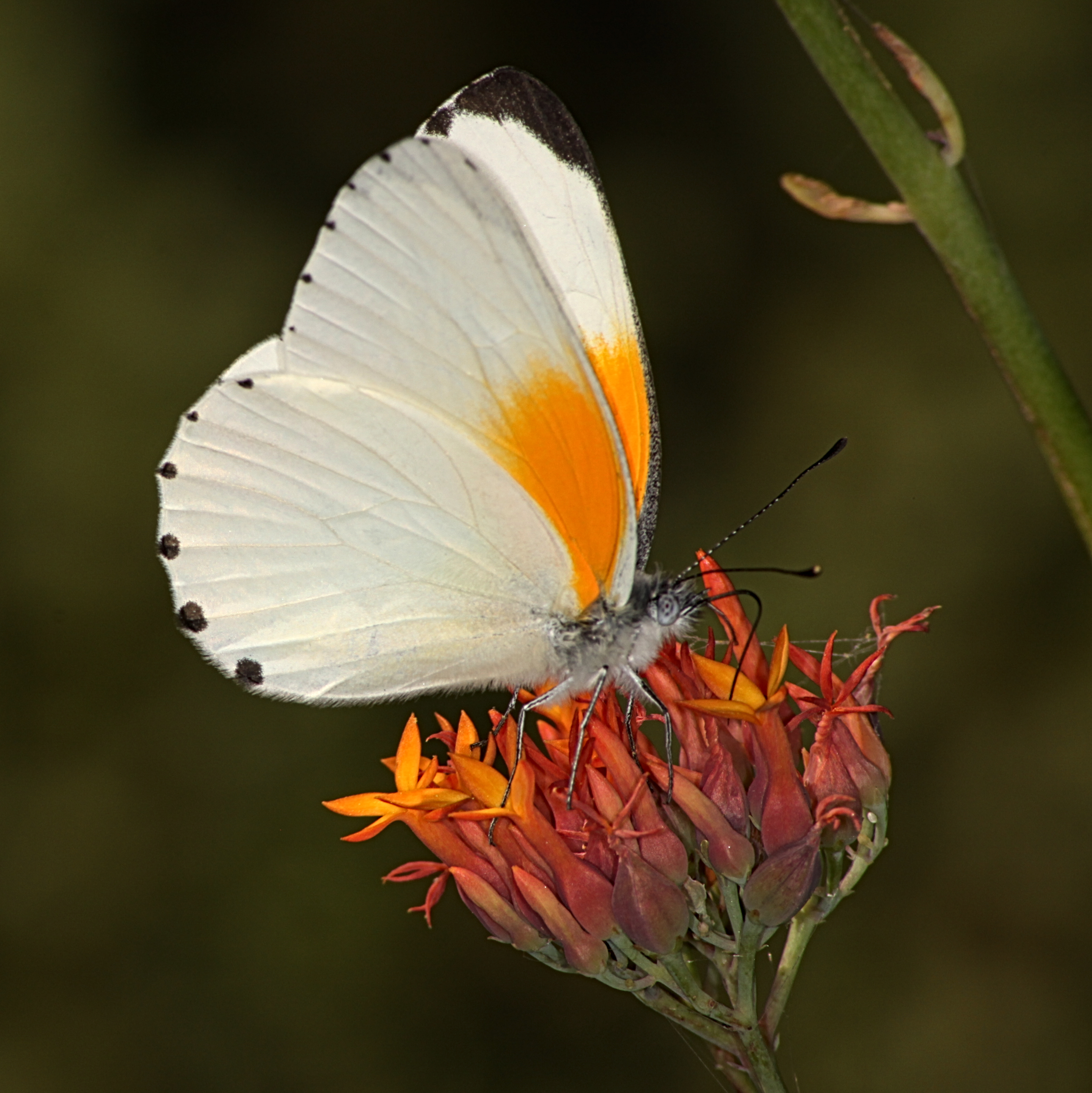 Common dotted border, Mylothris agathina, male.